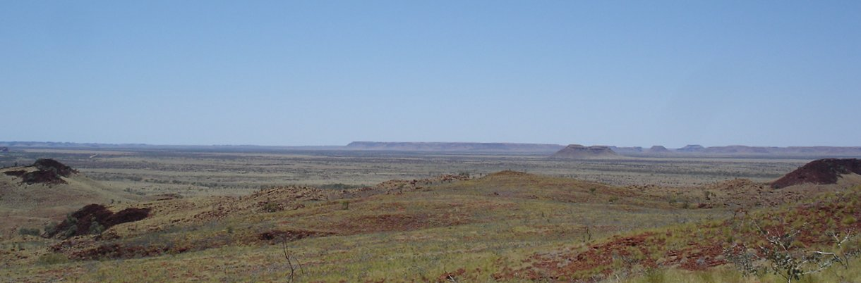 Willstream NP panorama, Western Australia.